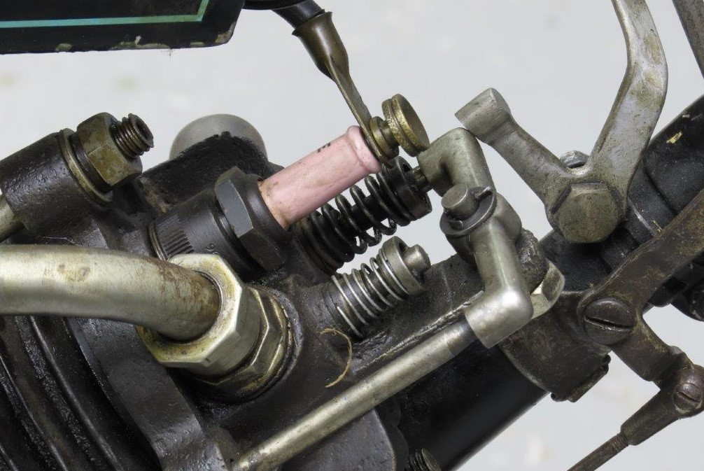 1903 Madison motorcycle cylinder head